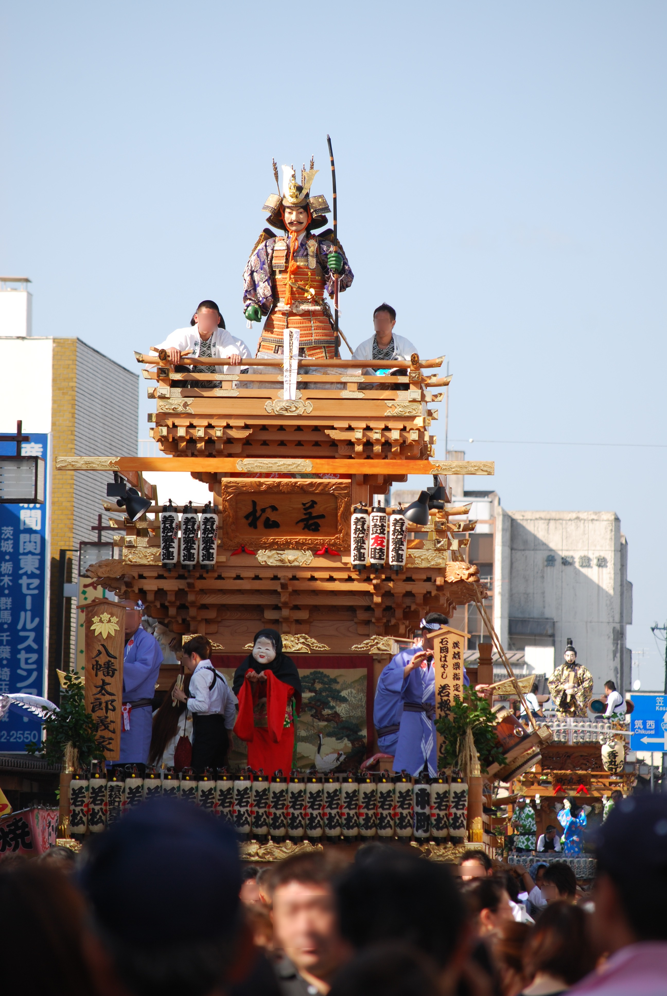 Float from Wakamatsu-cho neighbourhood in Ishioka City, Ibaraki Prefecture, Japan, at the Hitachinokuni Soshagu Reitaisai festival